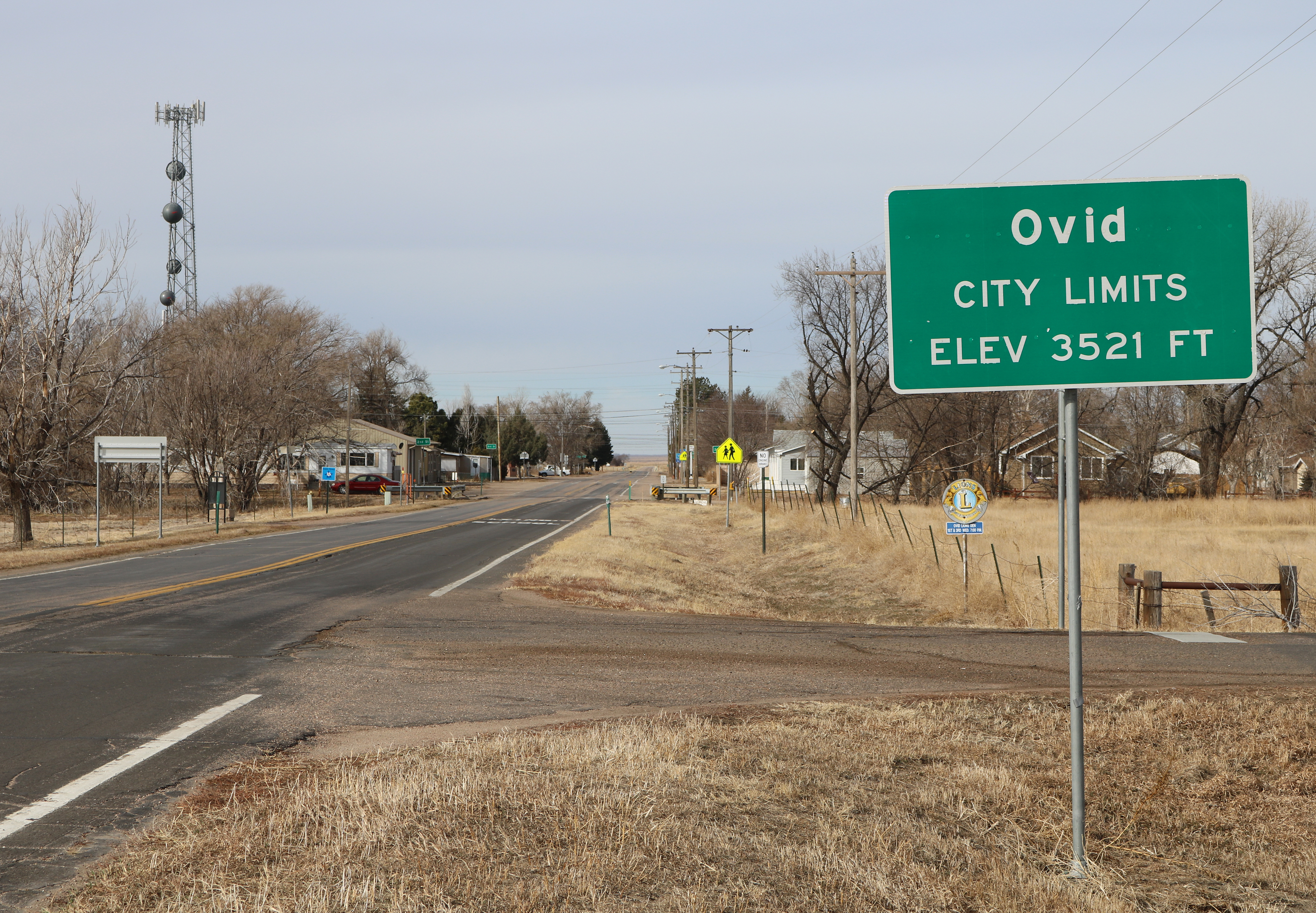 Ovid, Colorado. The view is to the west along U.S. Route 138, which is Saunders Avenue in Ovid.